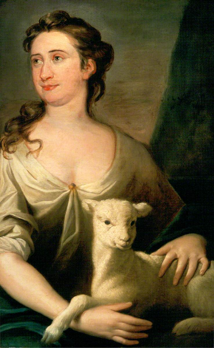 Portrait of Jane Hogarth (c.1709–1789) by her husband.